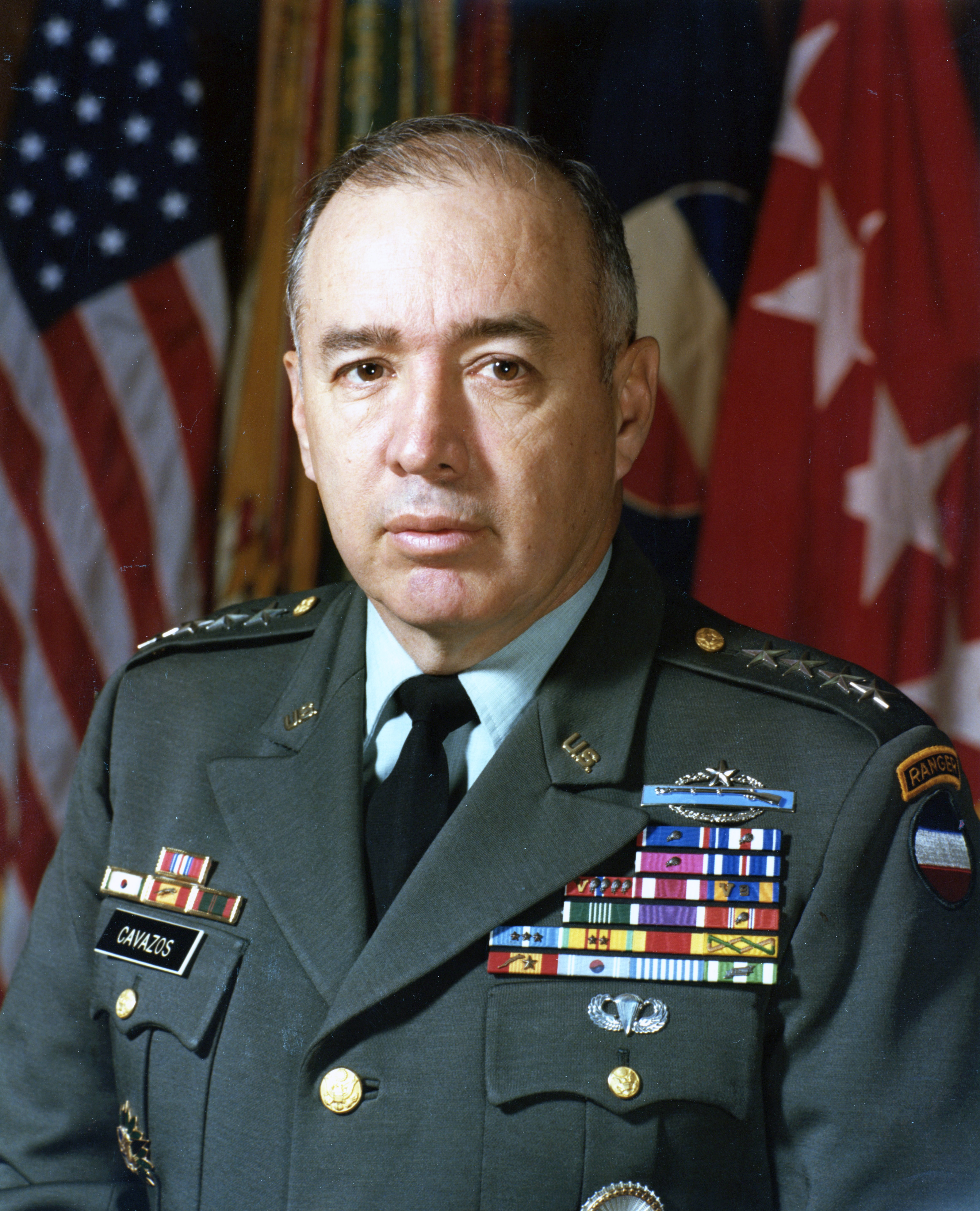 Photo of General Richard E. Cavazos as FORSCOM Commander.